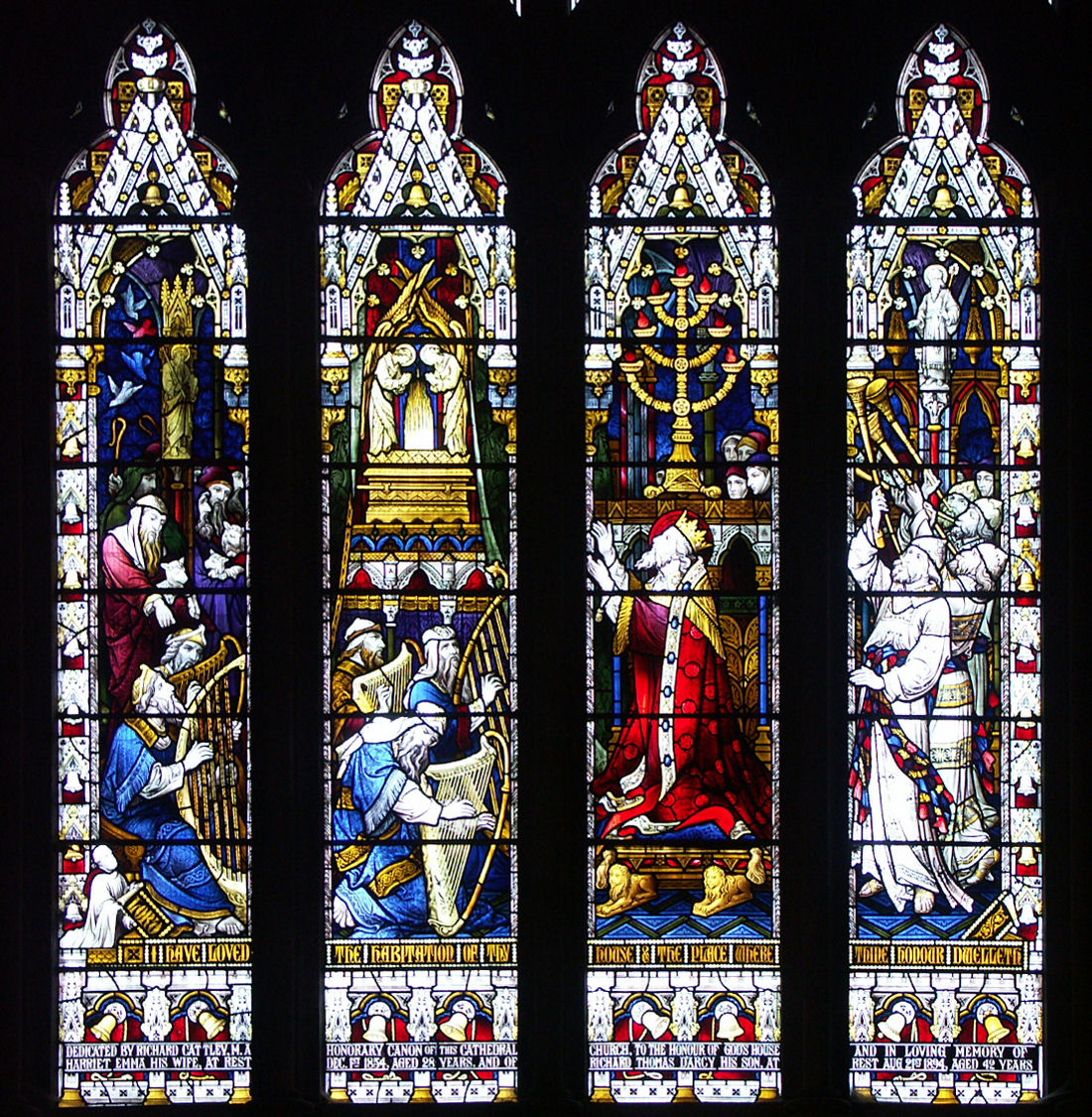 Worcester Cathedral, England